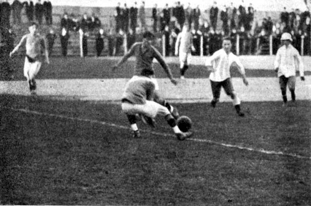 Boca Juniors playing CA Del Plata in 1920. Boca lost that match by 1-0.